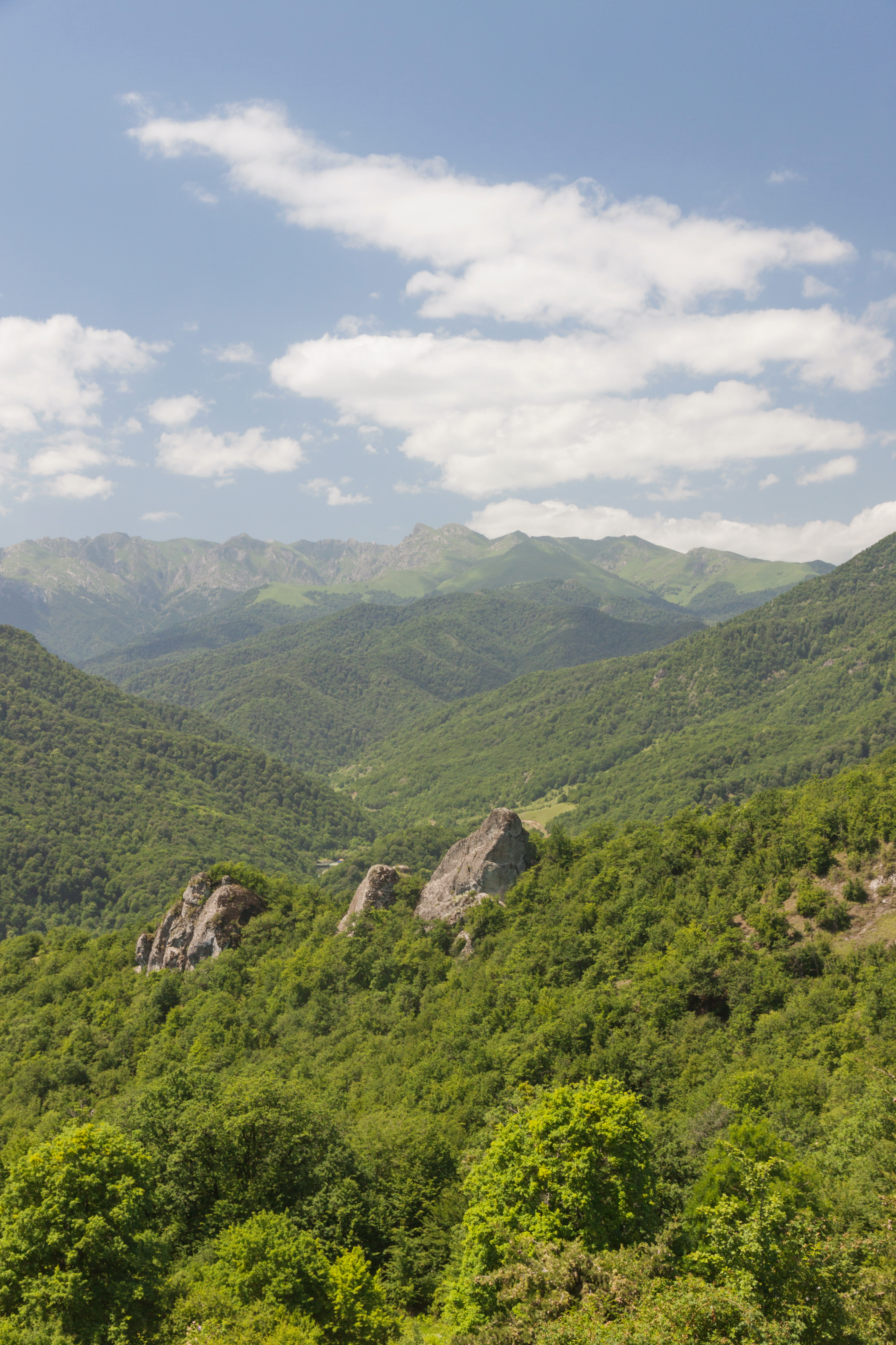 The views from the Gandzasar monastery. Nagorno-Karabakh.